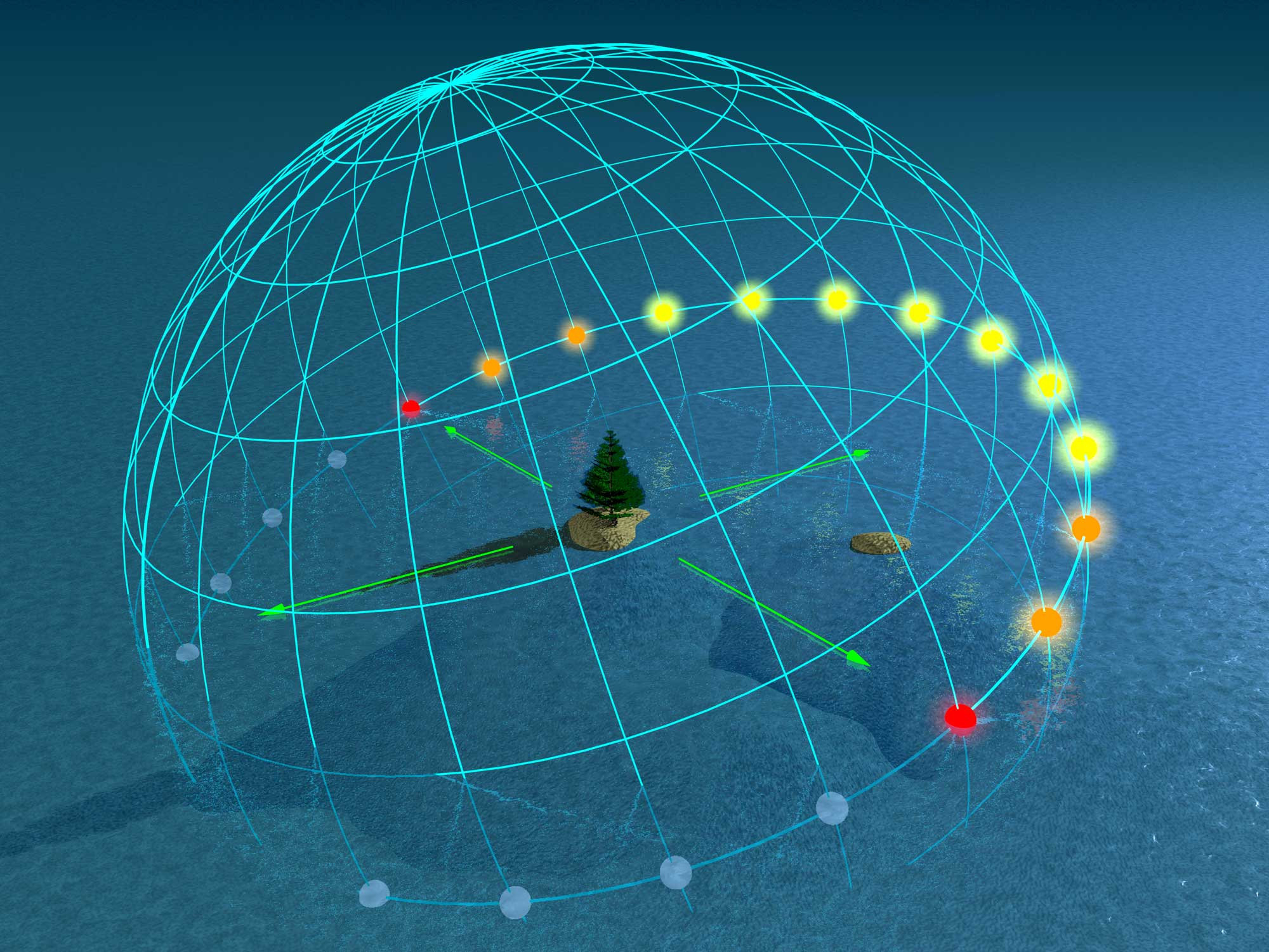 The day arc of the Sun, every hour, during the equinoxes as seen on the celestial dome, from 70° latitude. Also showing 'twilight suns' down to -18° altitude.